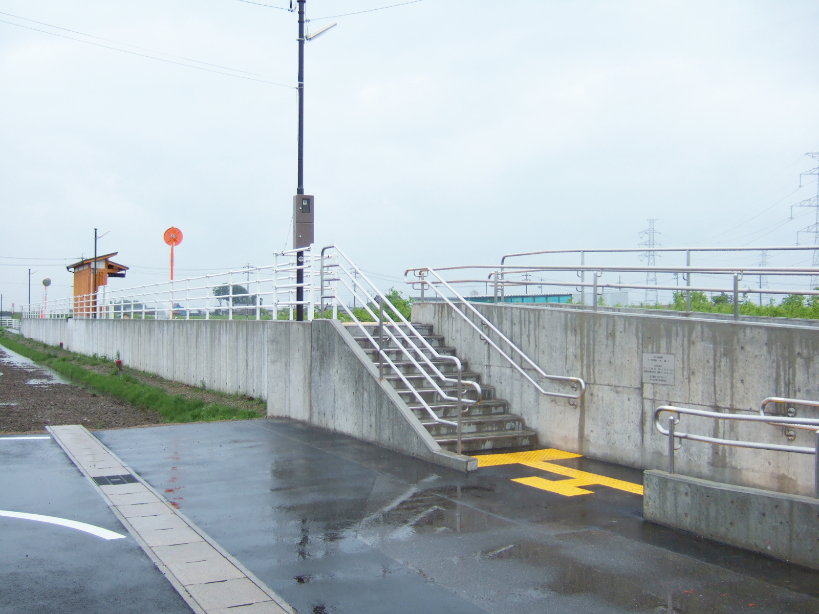 MALera Gifu station of the Tarumi Railway Tarumi line of Japanese Gifu Motosu. The railroad station newly established for MALera Gifu of a shopping mall.